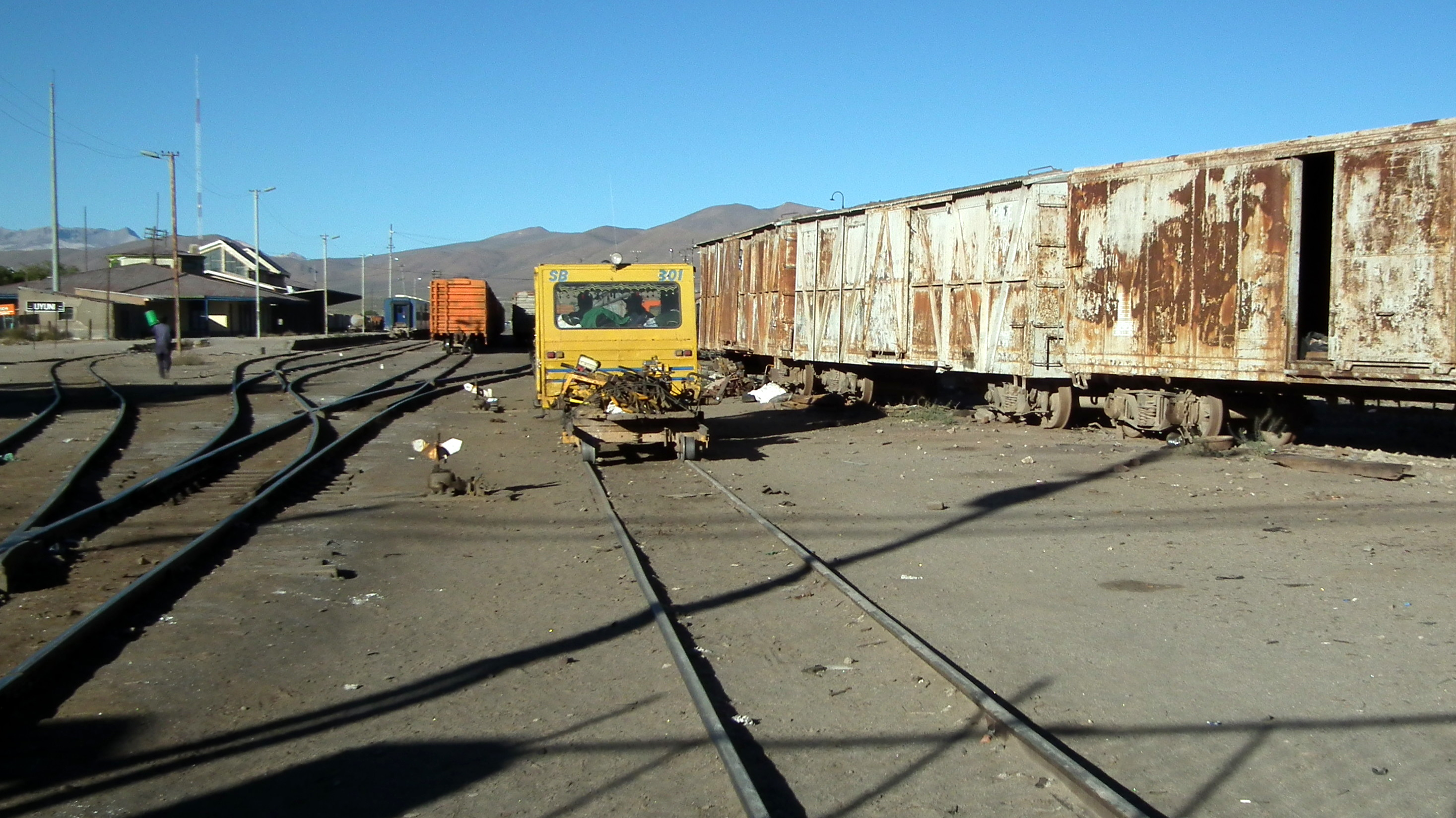 Railway station of Uyuni, Bolivia